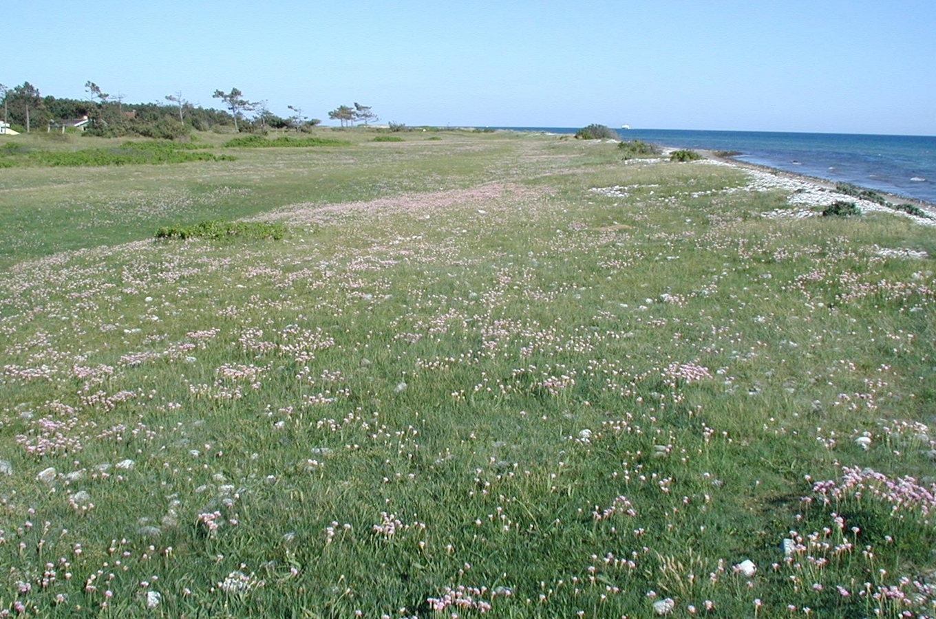 A grazed meadow near the coast of the Kattegat, Øer near Ebeltoft